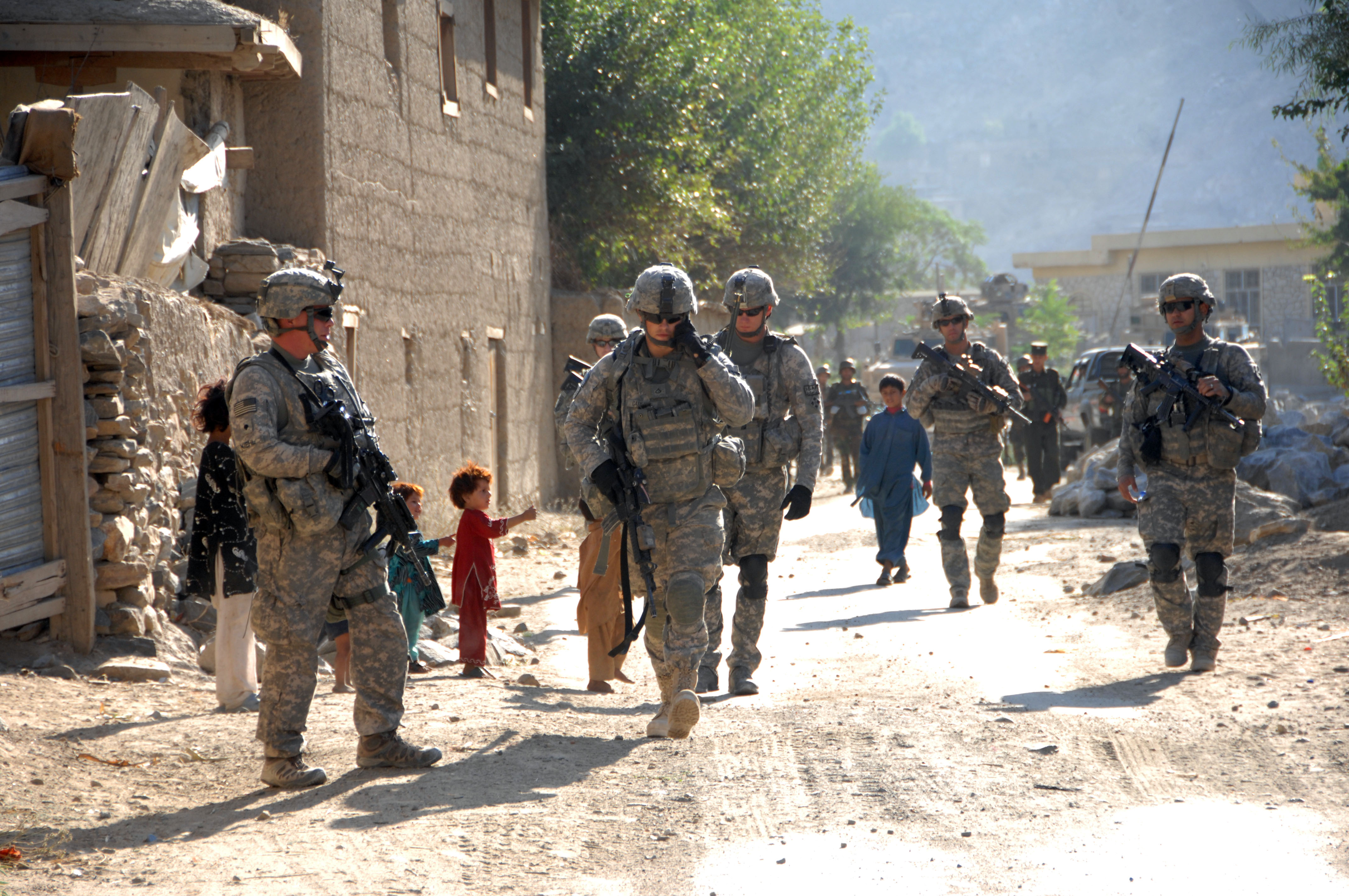 U.S. Soldiers from A Company, 2nd Battalion, 12th Infantry Regiment pass through a village while on a dismounted patrol as children beg for candy near Forward Operating Base Blessing, Afghanistan, Oct. 19. 2/12 is part of 4th Infantry Division based out of Fort Carson, Colo. Joint Combat Camera Afghanistan Photo by Sgt. Jennifer Cohen